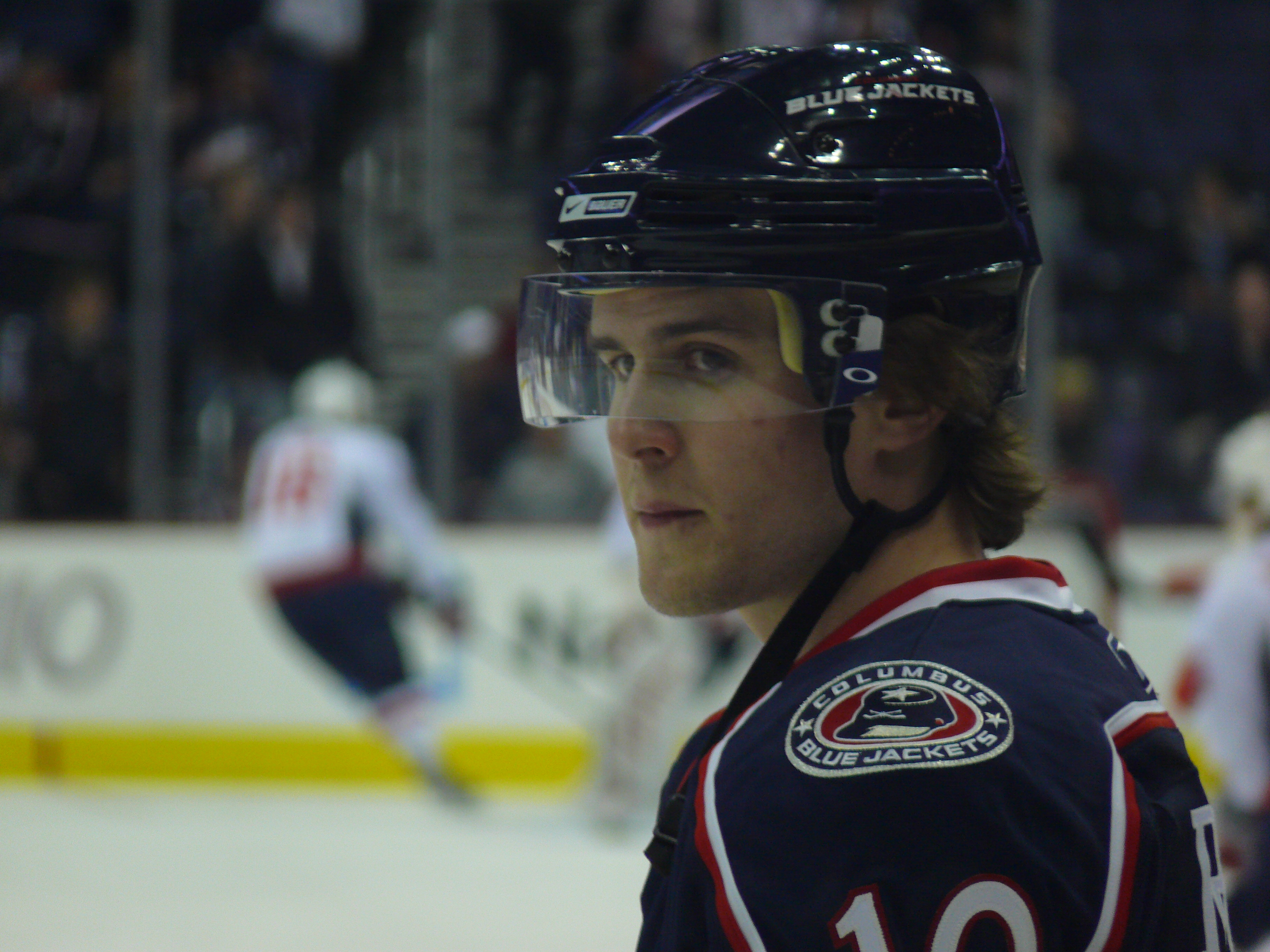 Blue Jackets defenseman Kris Russell